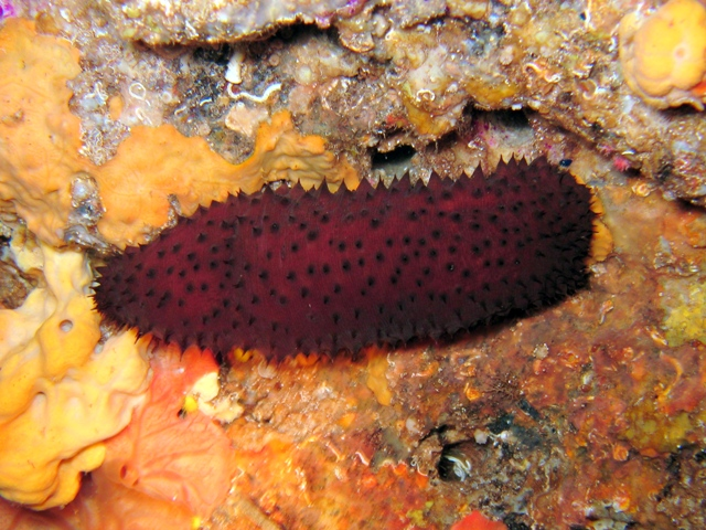 Holothuria sanctori